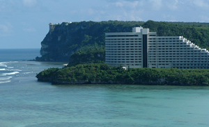 Puntan Dos Amantes